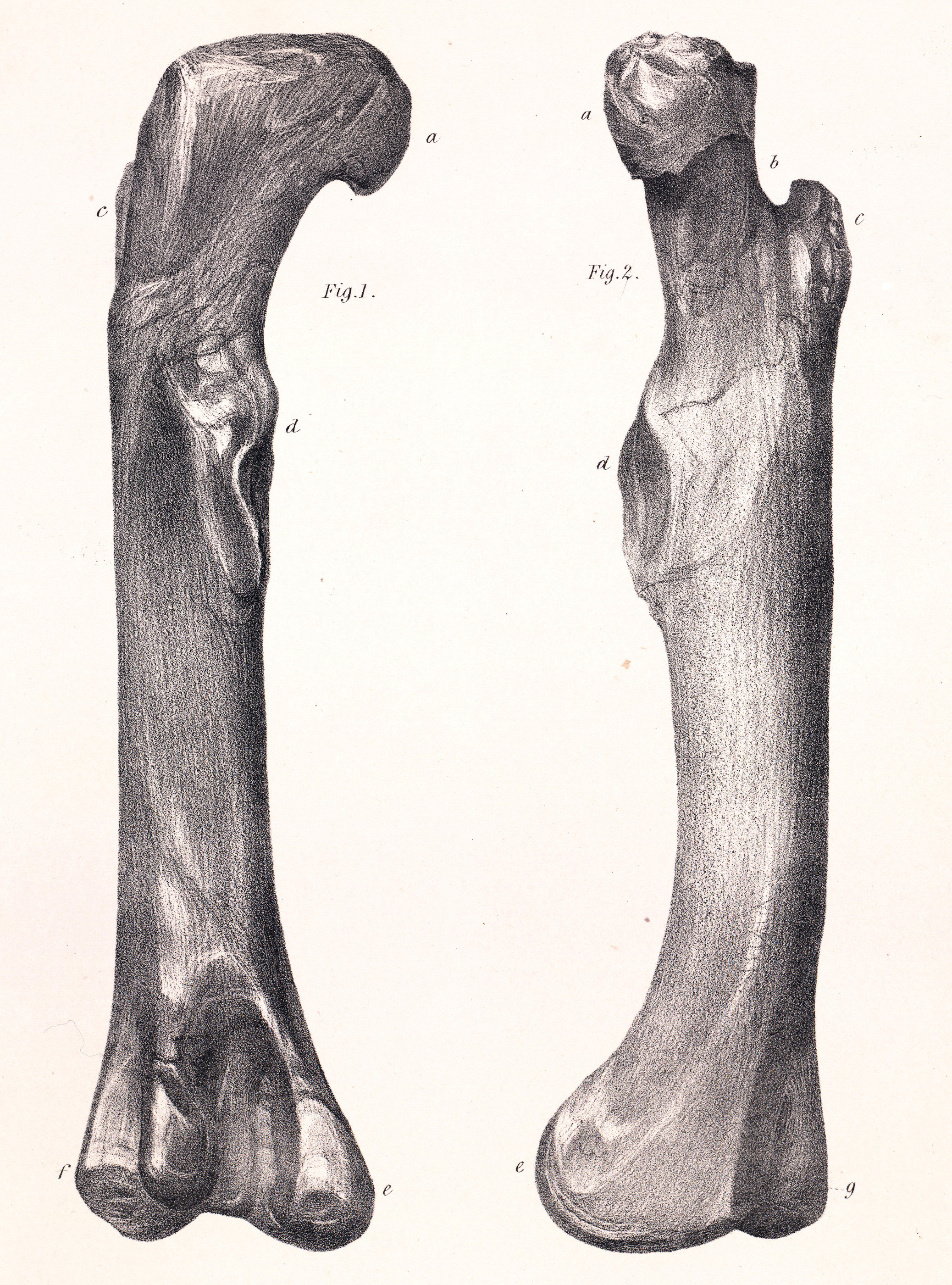 Original caption of the plate: The femur of the Megalosaurus; one fourth nat size. Fig. 1. Hinder surface. „ 2. Inner surface. From the Oolitic Slate, of Stonesfield, Oxfordshire. In the British Museum. Notes: Meaning of letters (according to description on Vol. I, p. 345): a = femoral head, b = groove between neck of femoral head and “great trochanter”, c = “great trochanter” (corresponds to the anterior or lesser trochanter of modern terminology), d = “inner trochanter” (corresponds to the 4th trochanter of modern terminology), e = inner condyle (medial condyle, Condylus medialis femoris), f = outer condyle (lateral condyle, Condylus lateralis femoris), g = “anterior or rotular interspace” (anterior intercondylar groove). The “Oolitic Slate, of Stonesfield” today is called Stonesfield Slate referred to the Taynton Limestone Formation which is of Middle Jurassic (middle Bathonian) age.[1] ↑ modern anatomical terms and stratigraphy according to Roger B. J. Benson (2010): A description of Megalosaurus bucklandii (Dinosauria: Theropoda) from the Bathonian of the UK and the relationships of Middle Jurassic theropods. Zoological Journal of the Linnean Society 158(4): 882–935